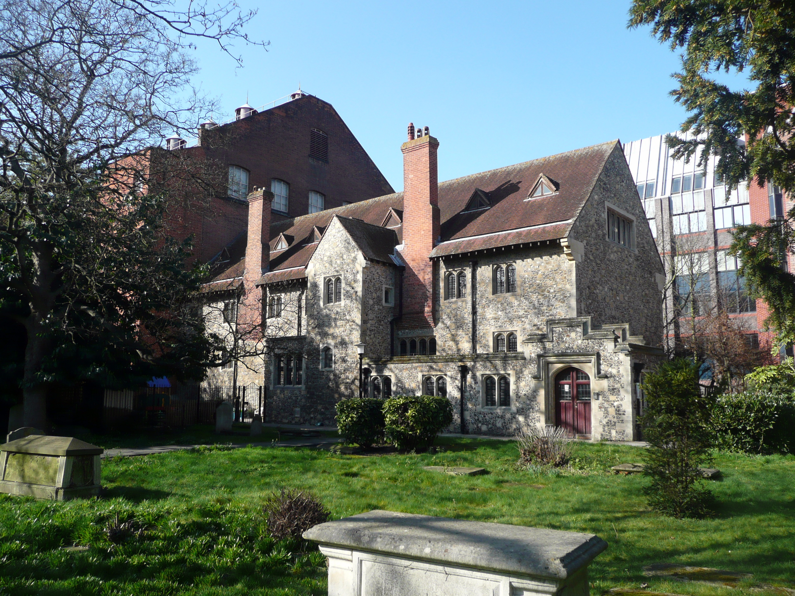 Former Hospitium of St John the Baptist. Guesthouse and Alms Houses associated with Reading Abbey and built in the late 15th Century. Restored in 1892 as laboratories for the University College